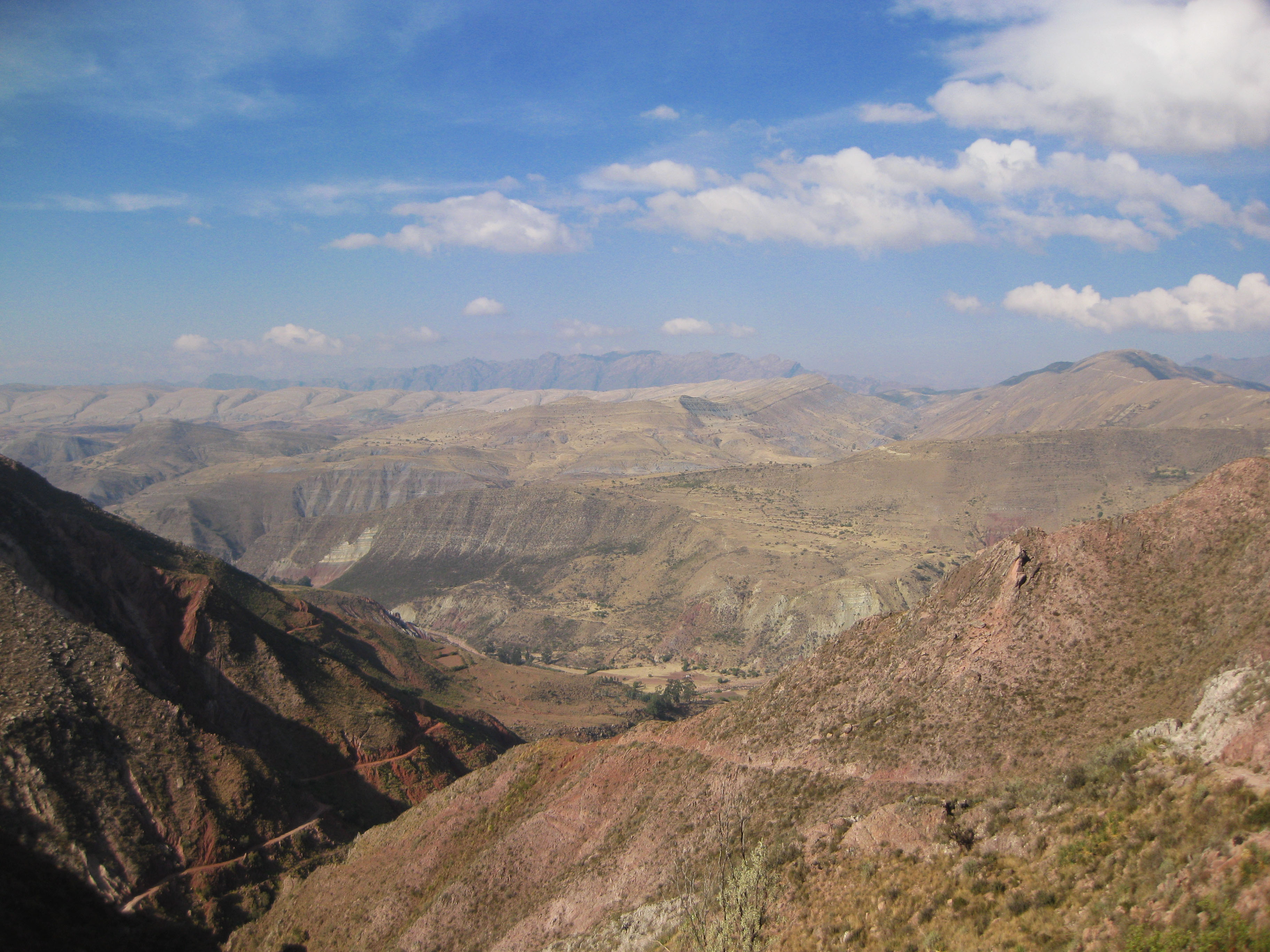 Cordillera de los Frailes on a clear day